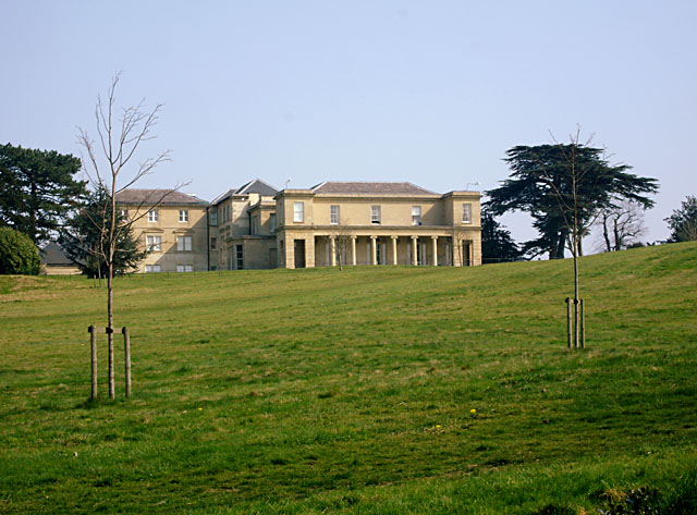 Brentry House, now known as Repton Hall. This building was designed by Humphry Repton for William Payne. It was built in 1802. It was used as the administration building for Brentry Hospital, and has been converted into residential apartments. It is a grade II listed building.[1]